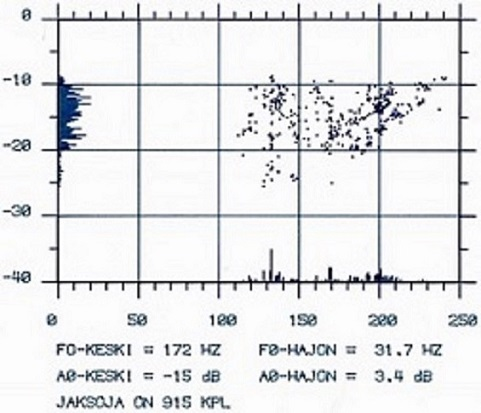 Computer Voice Field (1984). Semitone scale on the horizontal axis and dB scale on the vertical axis. The fundamental frequency algorithm measures each basic period separately.